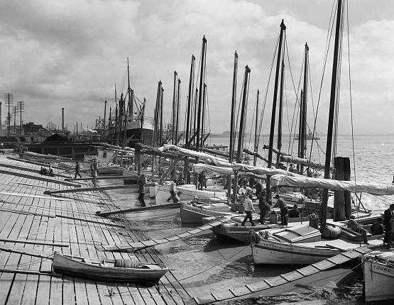 Oyster luggers were shallow draft sailing vessels used mostly for fishing. They are unusual for US craft in that they had a dipping lug sail.